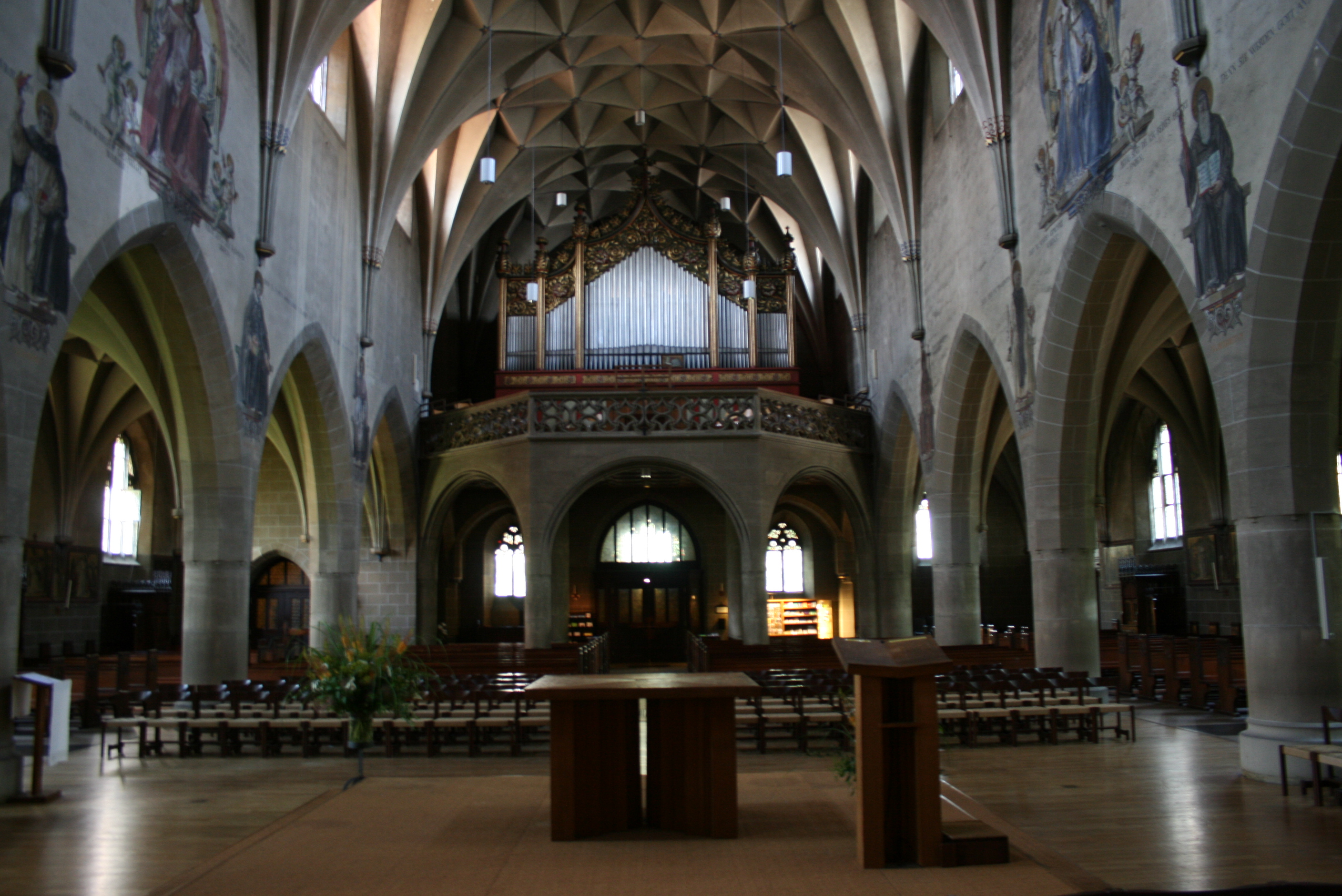 Indoor backside view of the Church of the Holy Spirit in Basel, Switzerland.